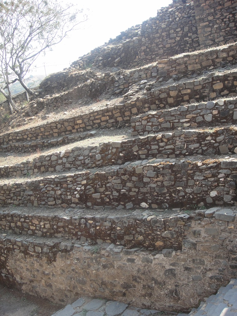 San Miguel Ixtapan, basement 3 north side